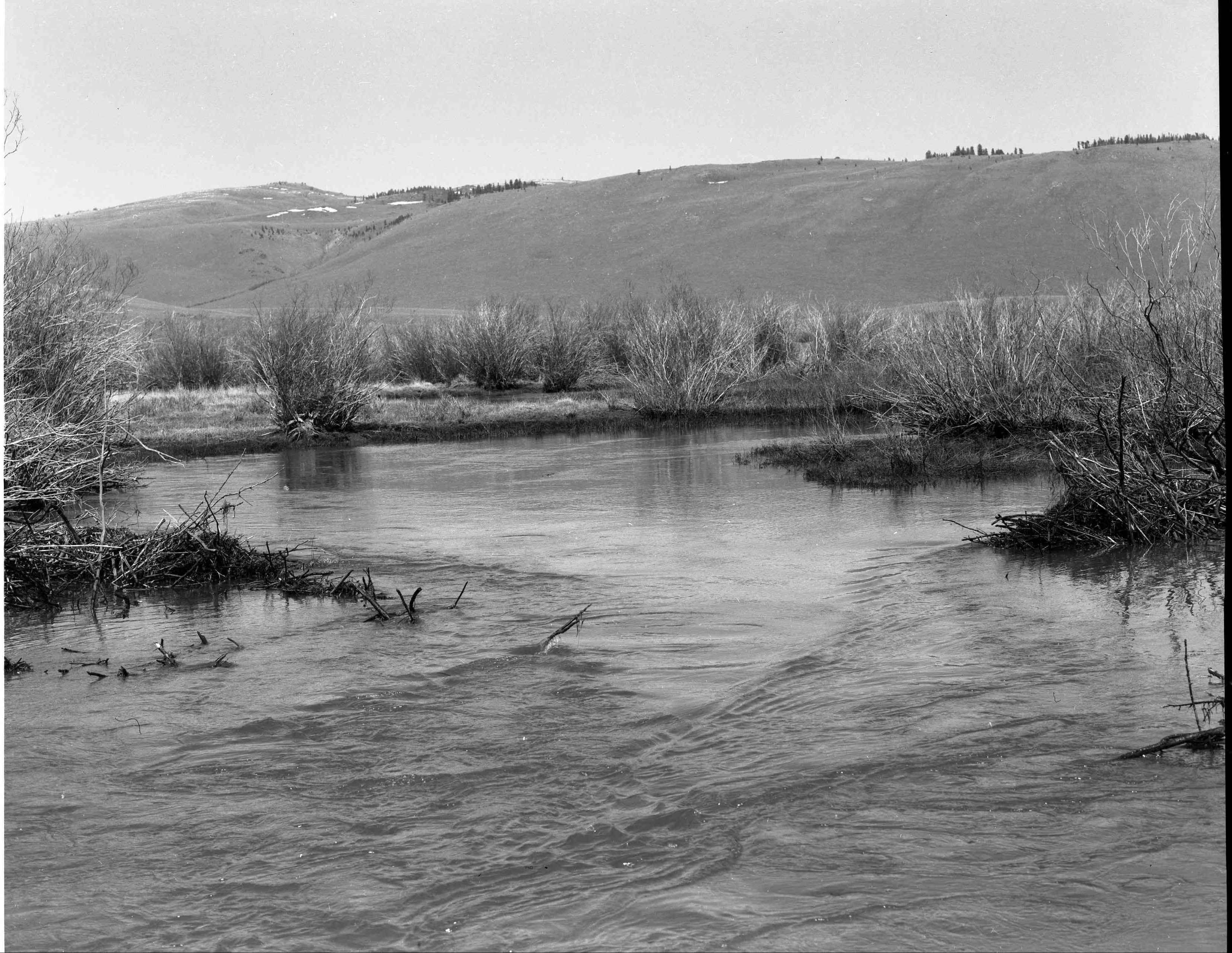 Image title: Beaver dam after opening vintage photo Image from Public domain images website